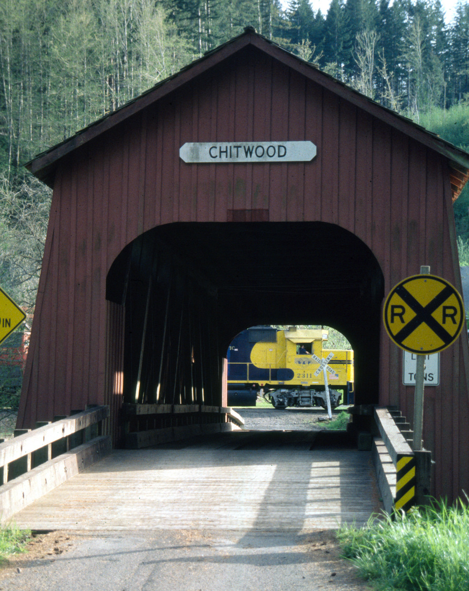 Willamette & Pacific RR "Toledo Hauler"passing the covered bridge at Chitwood. April 1998. Scan from 35mm slide.